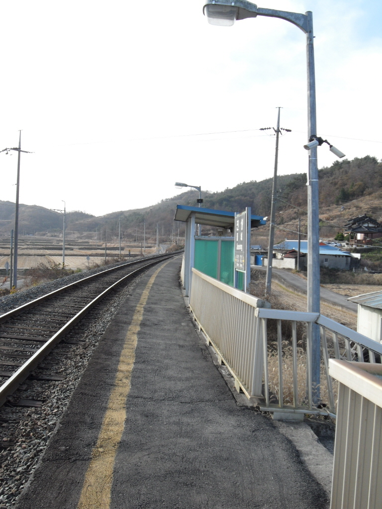 Korail Jinseong Station